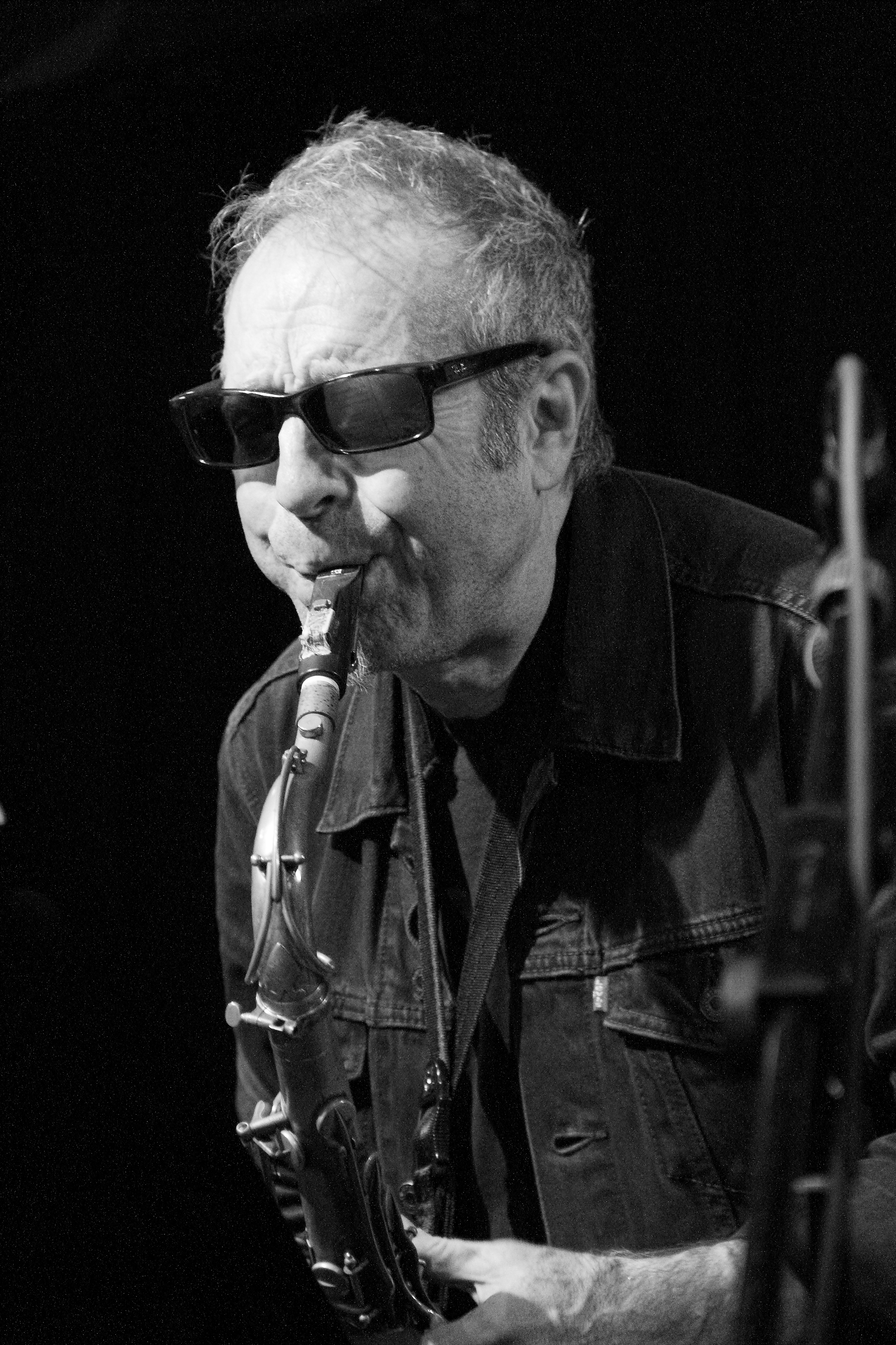 Band leader Mars Williams and his project are interpreting traditional Christmas songs and tunes of Albert Ayler. Here it´s a concert at Club W71, Weikersheim. Band members are Mars Williams (sax), Jaimie Branch (tr), Knox Chandler (g), Klaus Kugel (dr) & Mark Tokar (db).